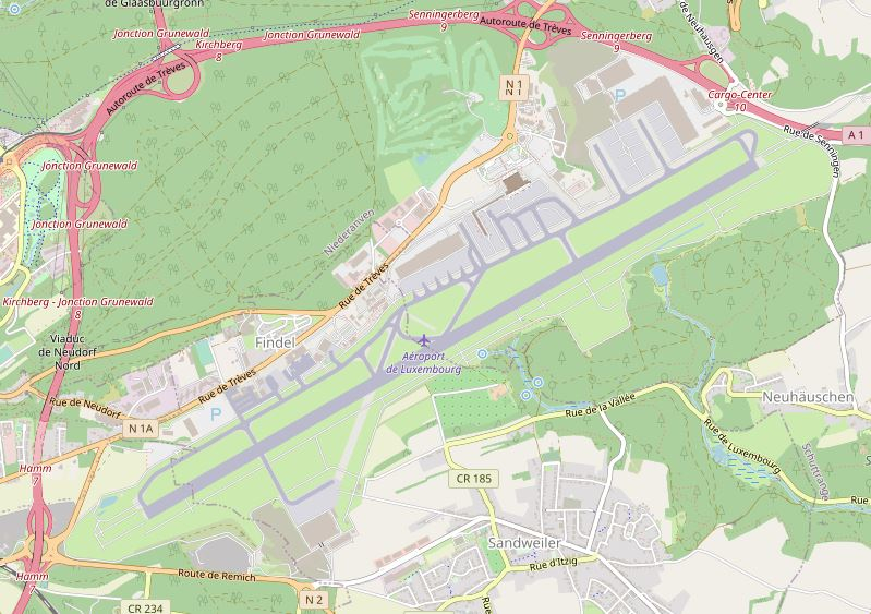 Map of the Luxembourg airport at Findel.